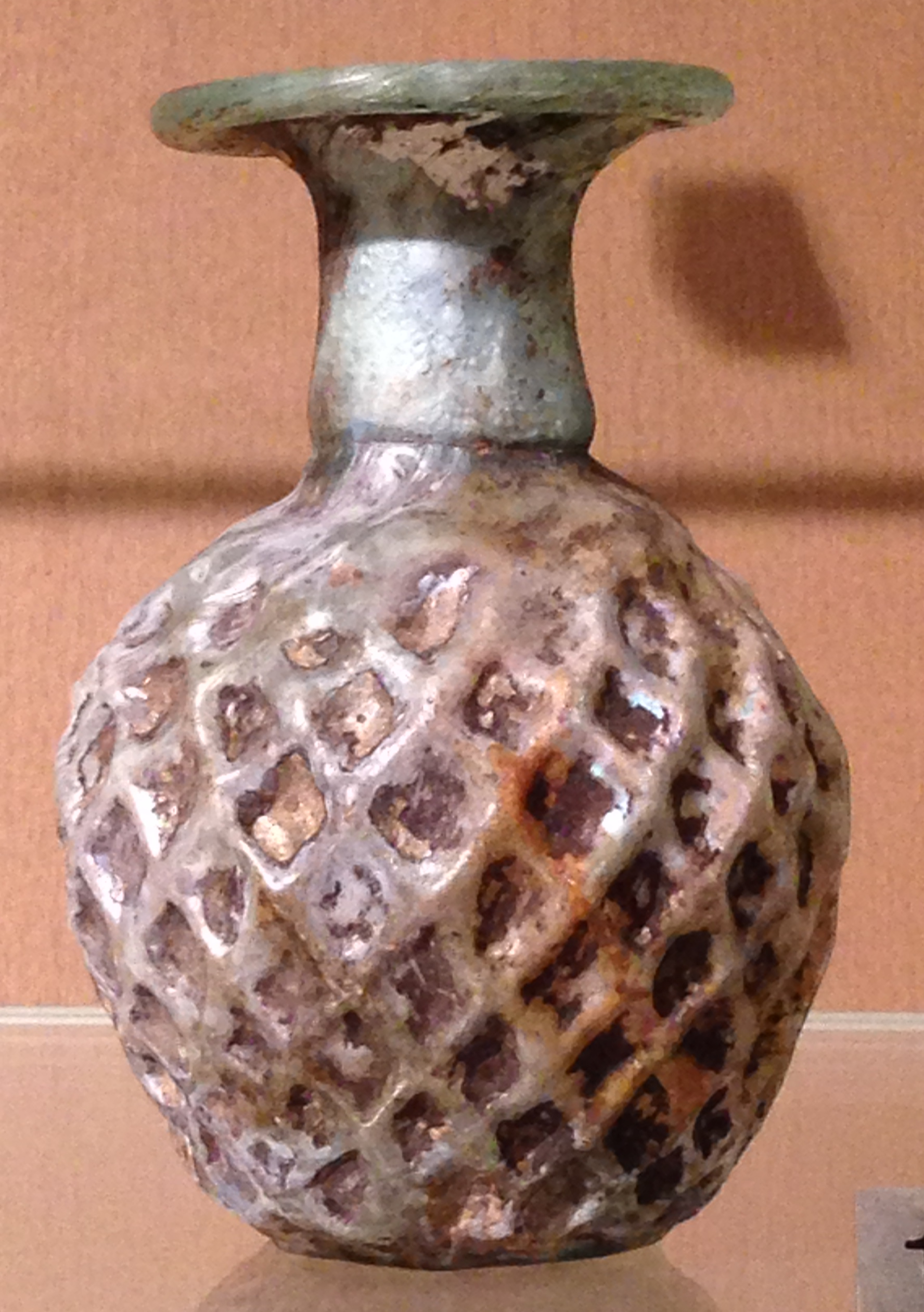 Vase from Tyre/Sour, 7th to 8th century A.D. (early Muslim period), on display at the National Museum of Beirut, Lebanon